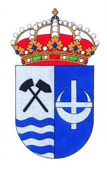 La Lastrilla's shield